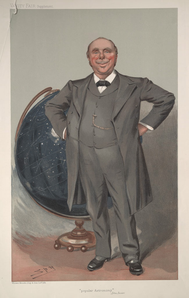 Men of the Day No.959: Caricature of Sir Robert Stawell Ball. Caption reads: "popular Astronomy"